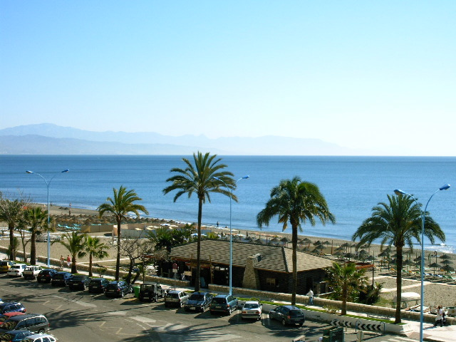 Torremolinos at the coast.